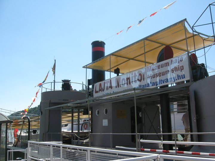 After the reconstructions work in 2010